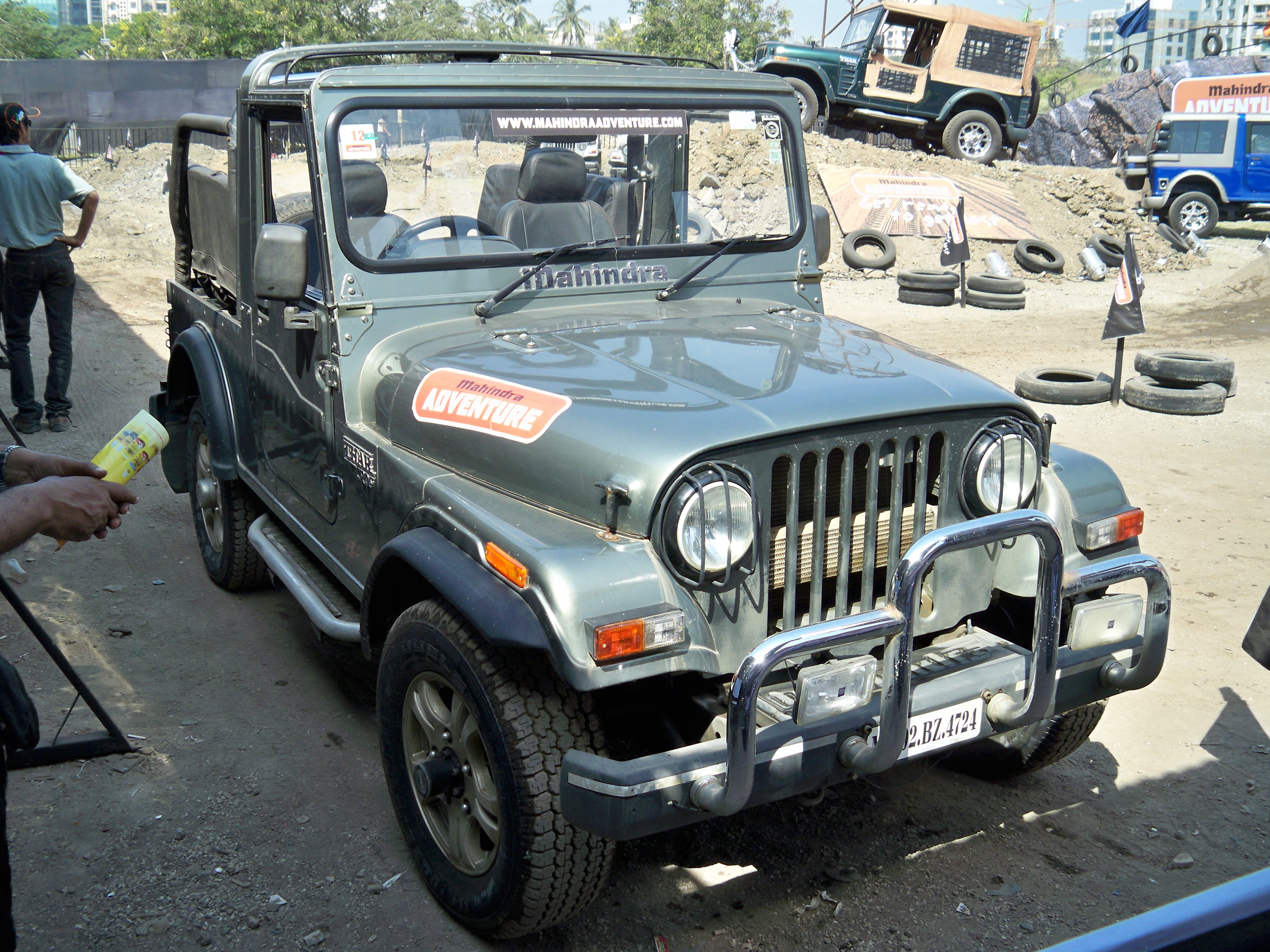 2012 Mahindra Thar 4X4 at Autocar Performance Car Show in Mumbai.